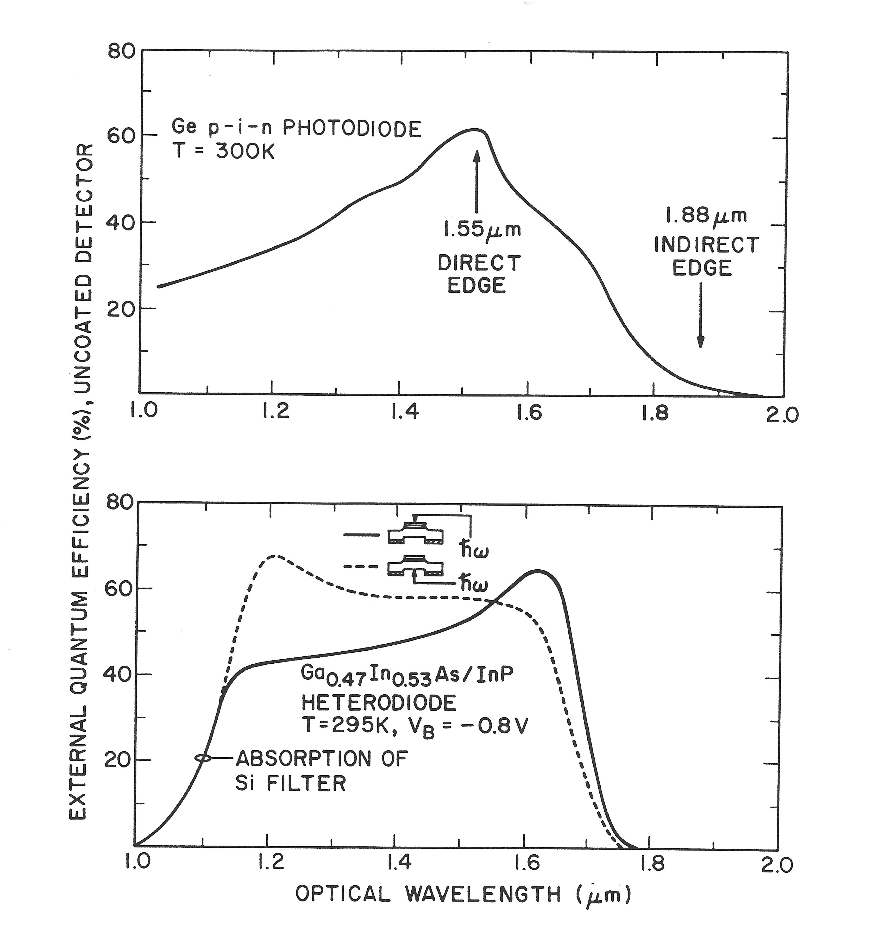 Measured photoresponse of Ge and GaInAs photodiodes